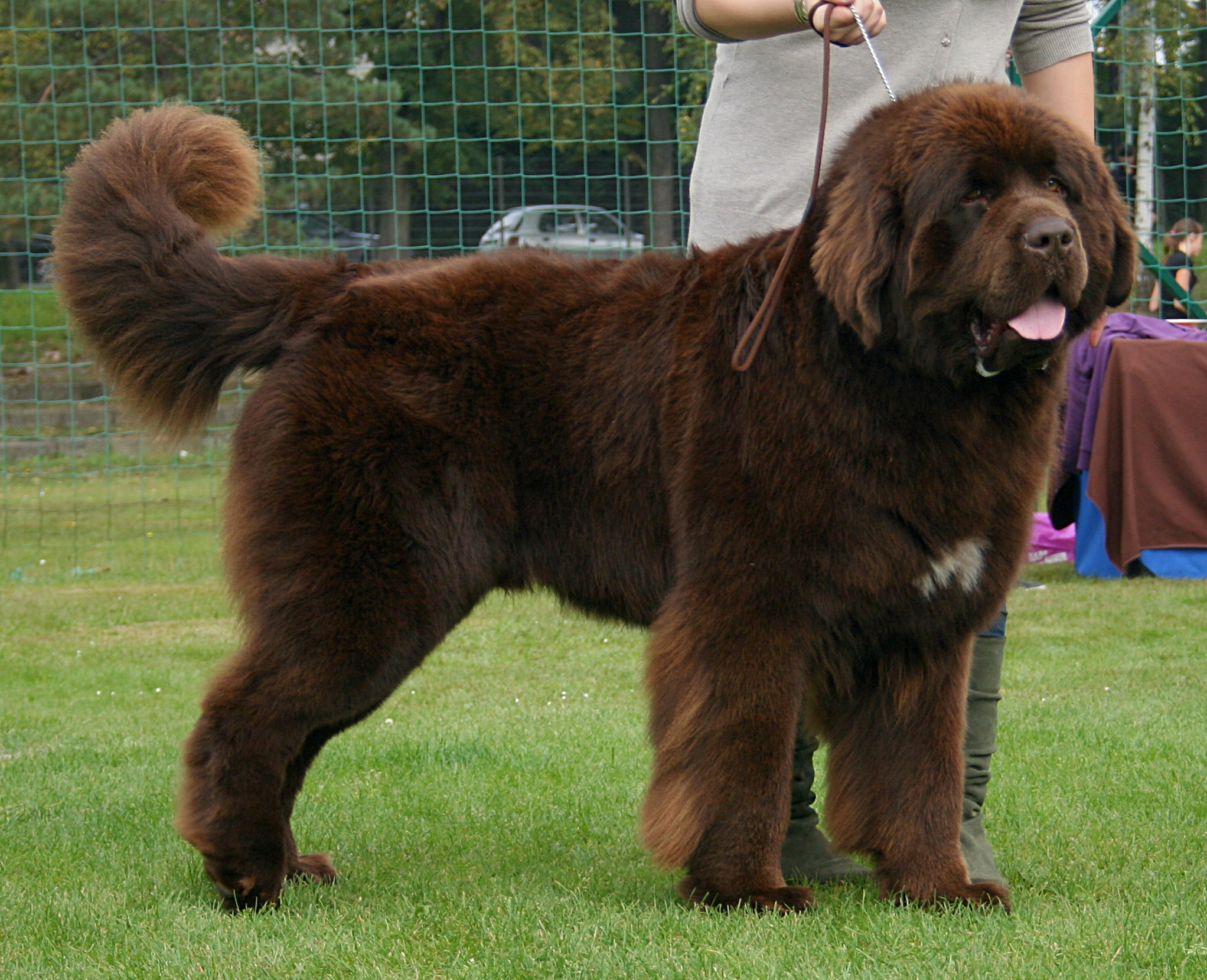 Newfoundland during Dogs Show in Rybnik.